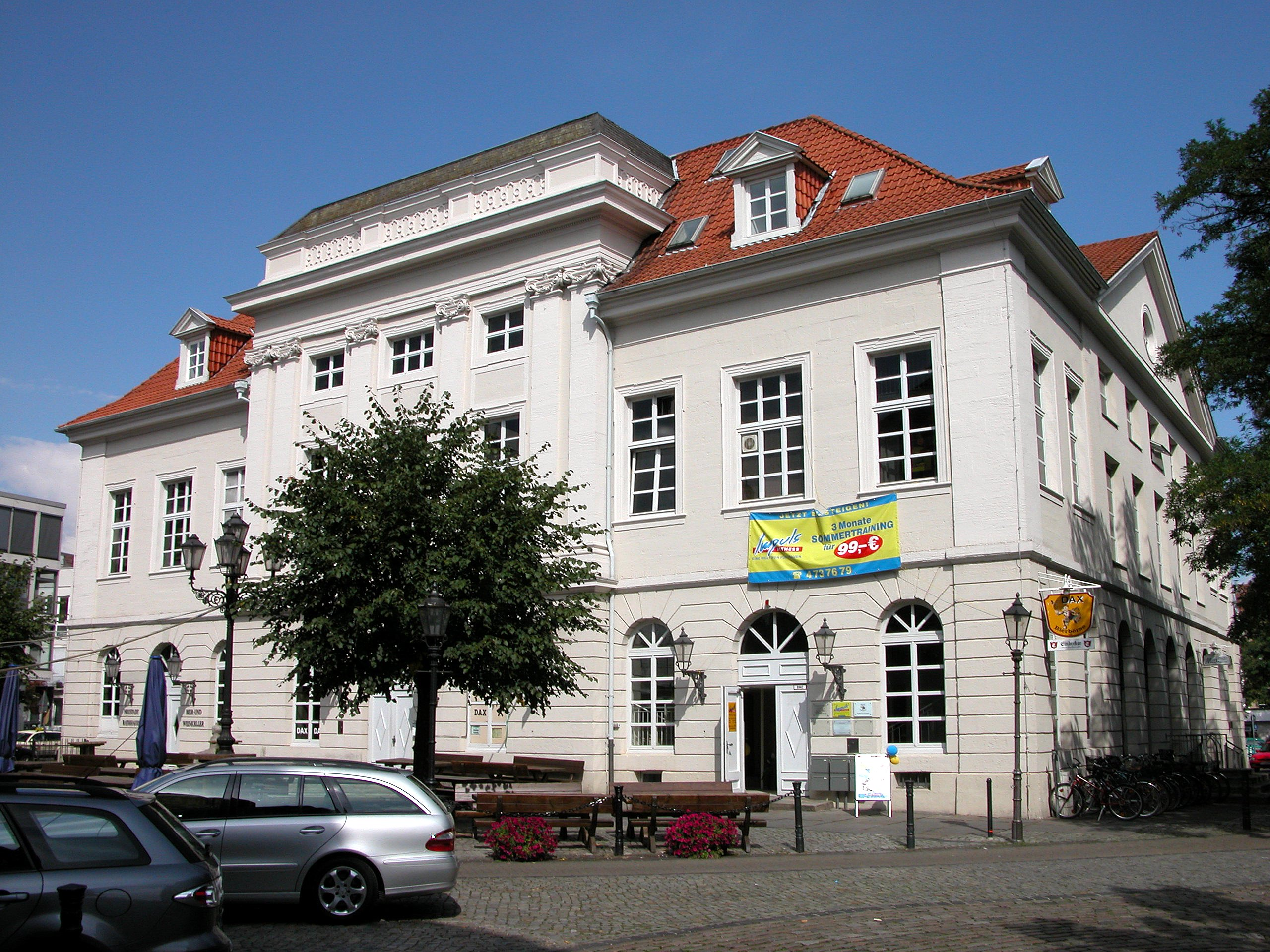 Brunswick, Germany: “Neustadt”-Town Hall (New Town).